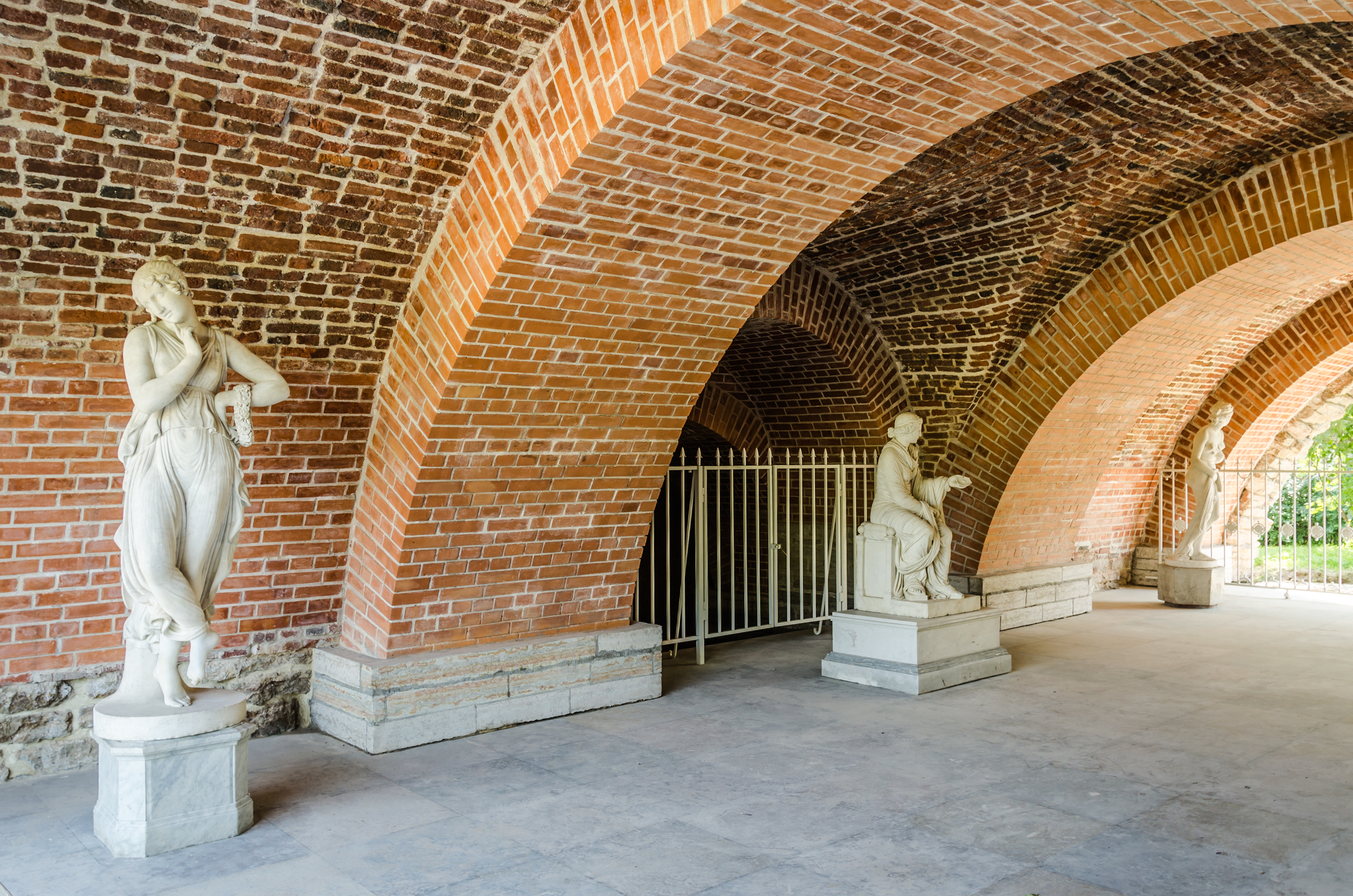 Cameron gallery in Catherine park of Tsarskoe Selo, Saint Petersburg